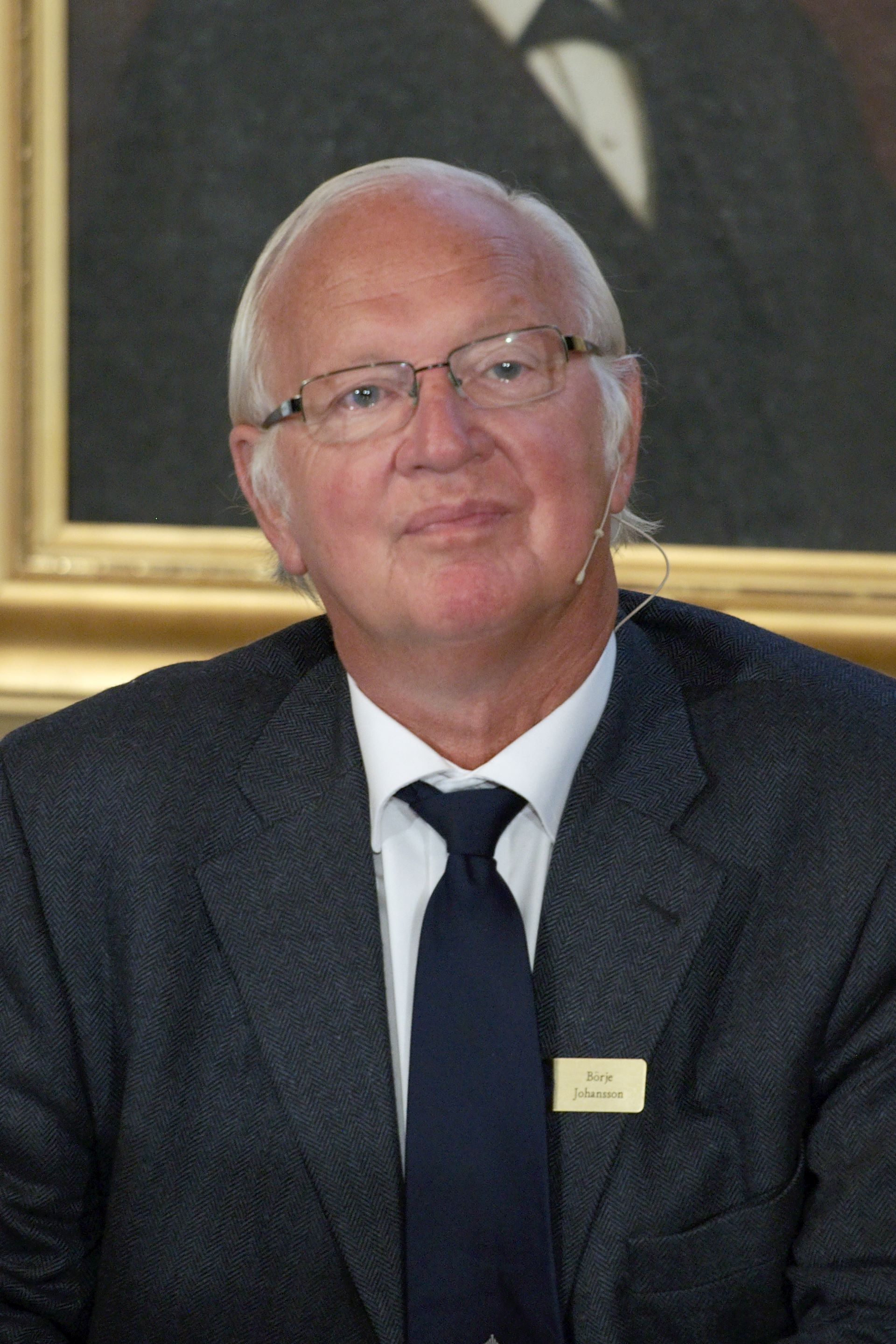 Announcement of the Nobelprize in Physics 2011